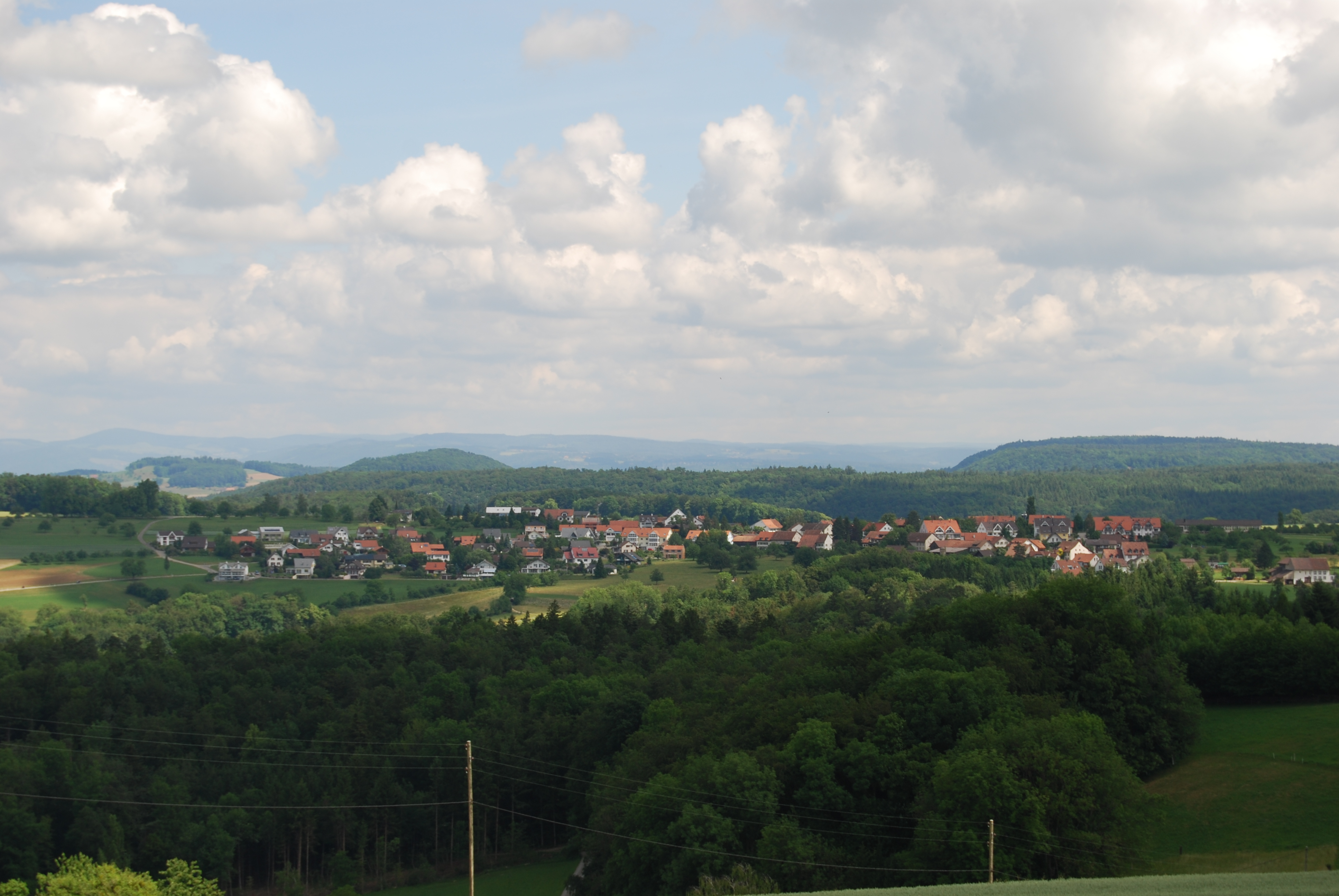 Rünenberg, canton of Basel-Landschaft, Switzerland